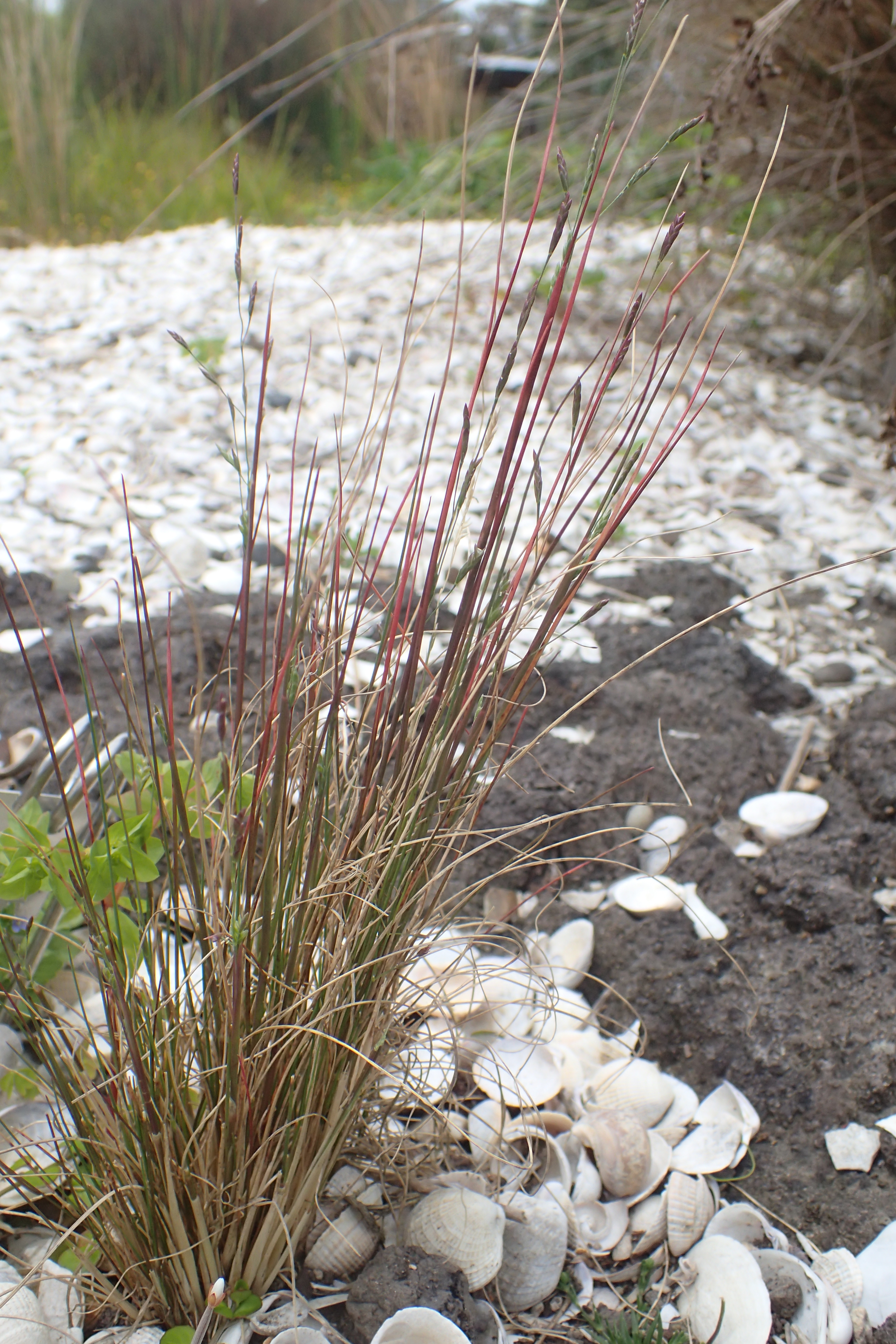 Puccinellia stricta in Auckland Botanic Gardens